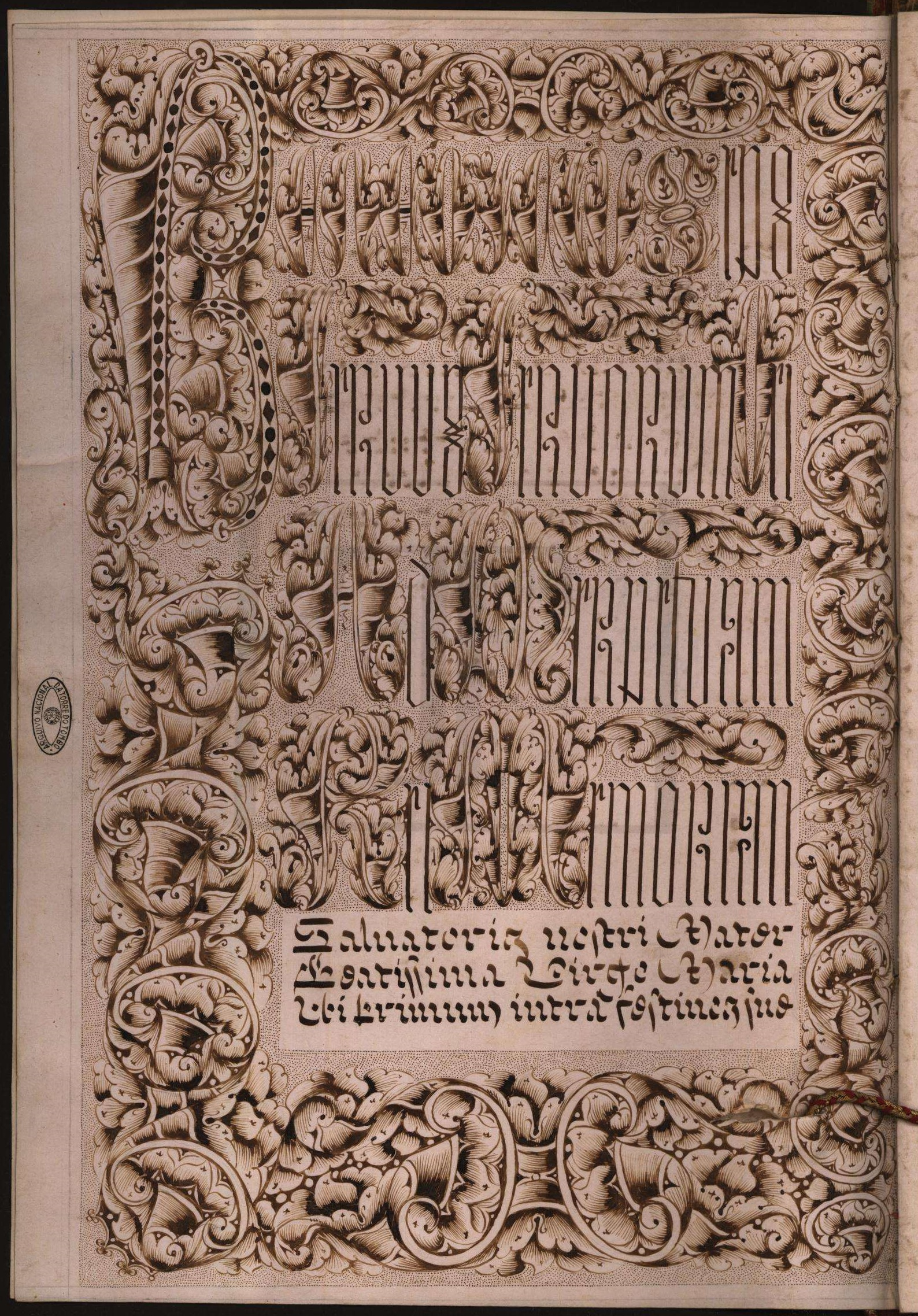 First page of the papal bull Salvatoris nostri mater, 1740.